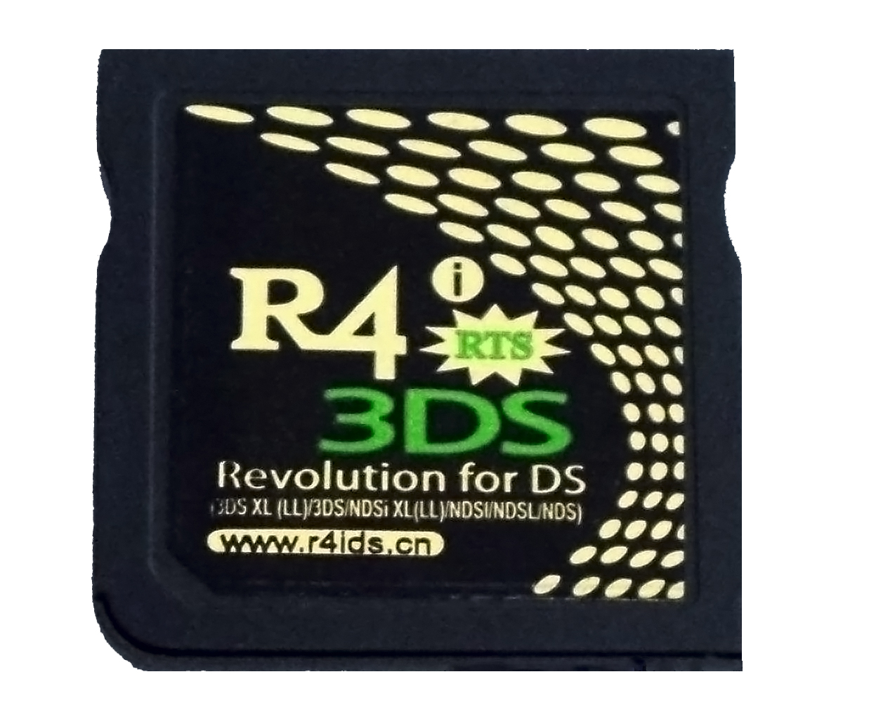 A picture of the R4 3DS Cart for the Nintendo 3DS.